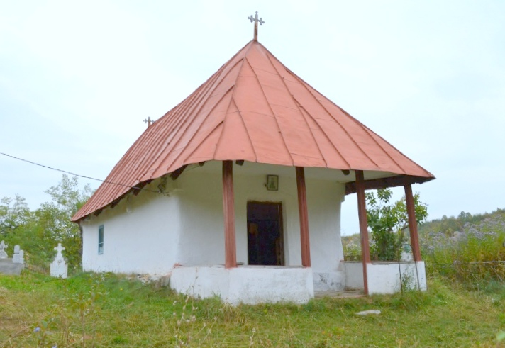 Wooden church in Runcușor, Mehedinți county, Romania